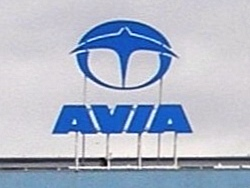 Factory of Avia Letňany, Prague